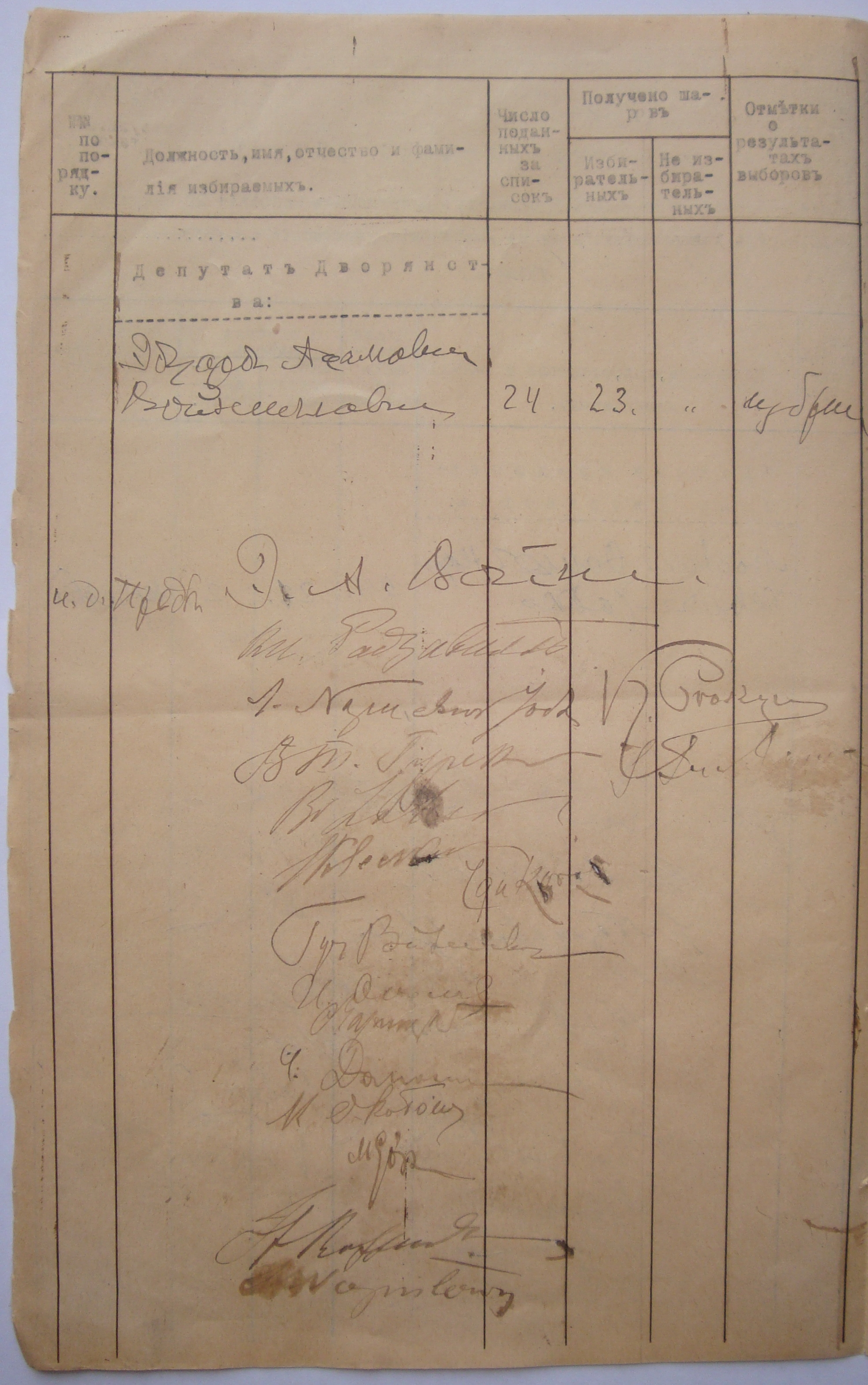 Document of an election for the Sluck district deputy of nobility - in Minsk, 29 September 1918 AD. Edward Woynillowicz (1847-1928)'s autograph first in the list, second - prince Antoni Albrecht Wilhelm Radziwiłł (1885—1935)